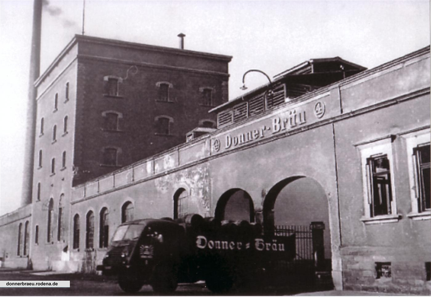 Donnerbräu Brauerei Saarlouis